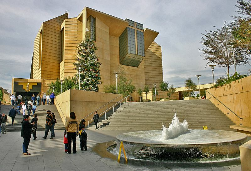 The Cathedral of Our Lady of the Angels — entry courtyard with fountain, in Downtown Los Angeles, California. Base isolation was used for earthquake engineering—seismic fitness of the cathedral.